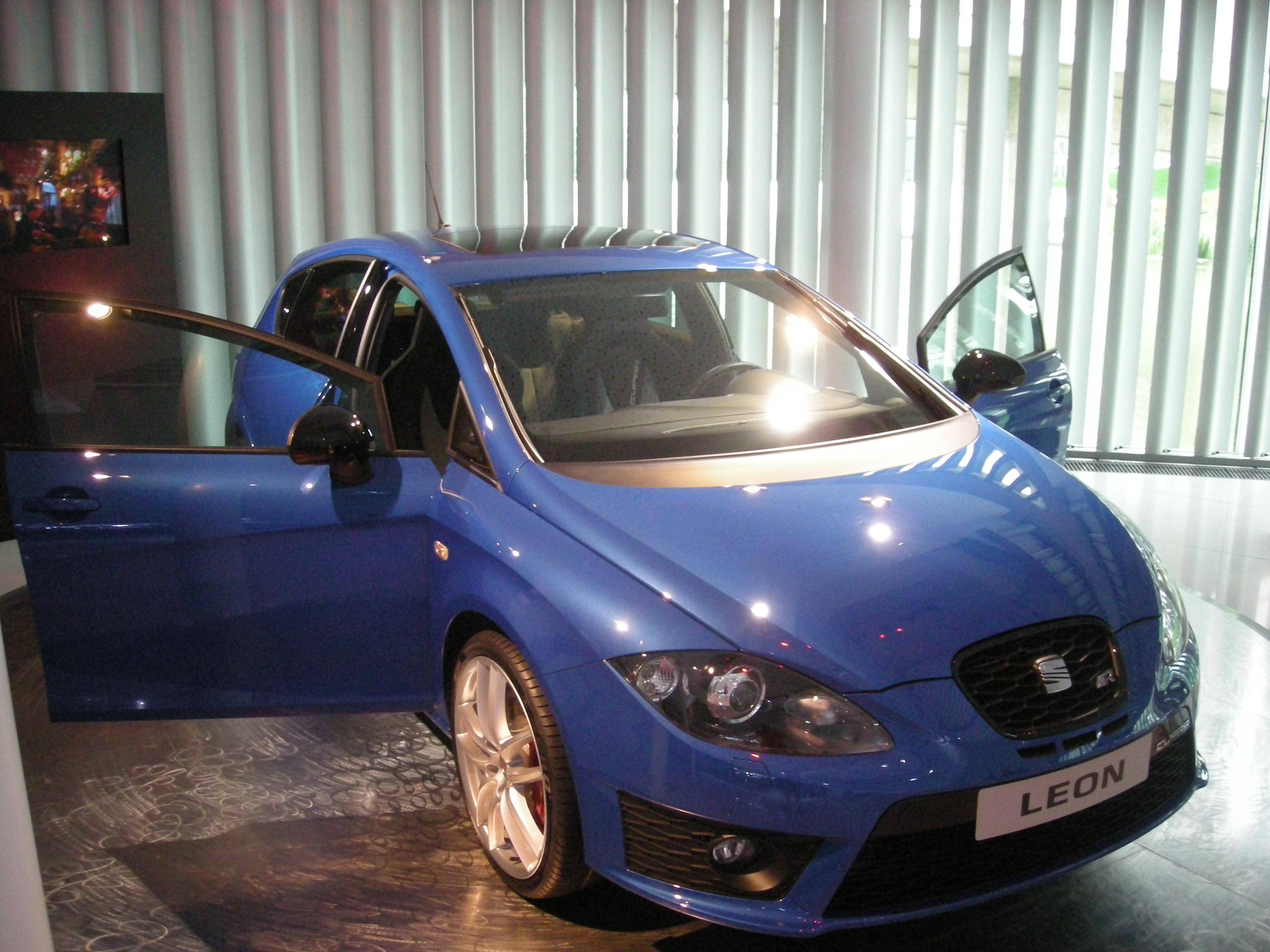 A SEAT León inside the SEAT Pavillon at Autostadt in Wolfsburg, Niedersachsen (Germany).